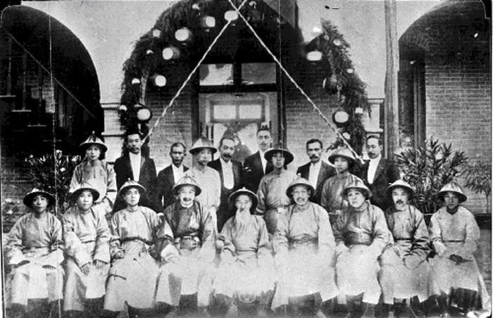 Faculty, Peking University, 1903